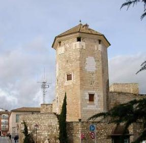 Photo of "Castillo del Moral" in Lucena